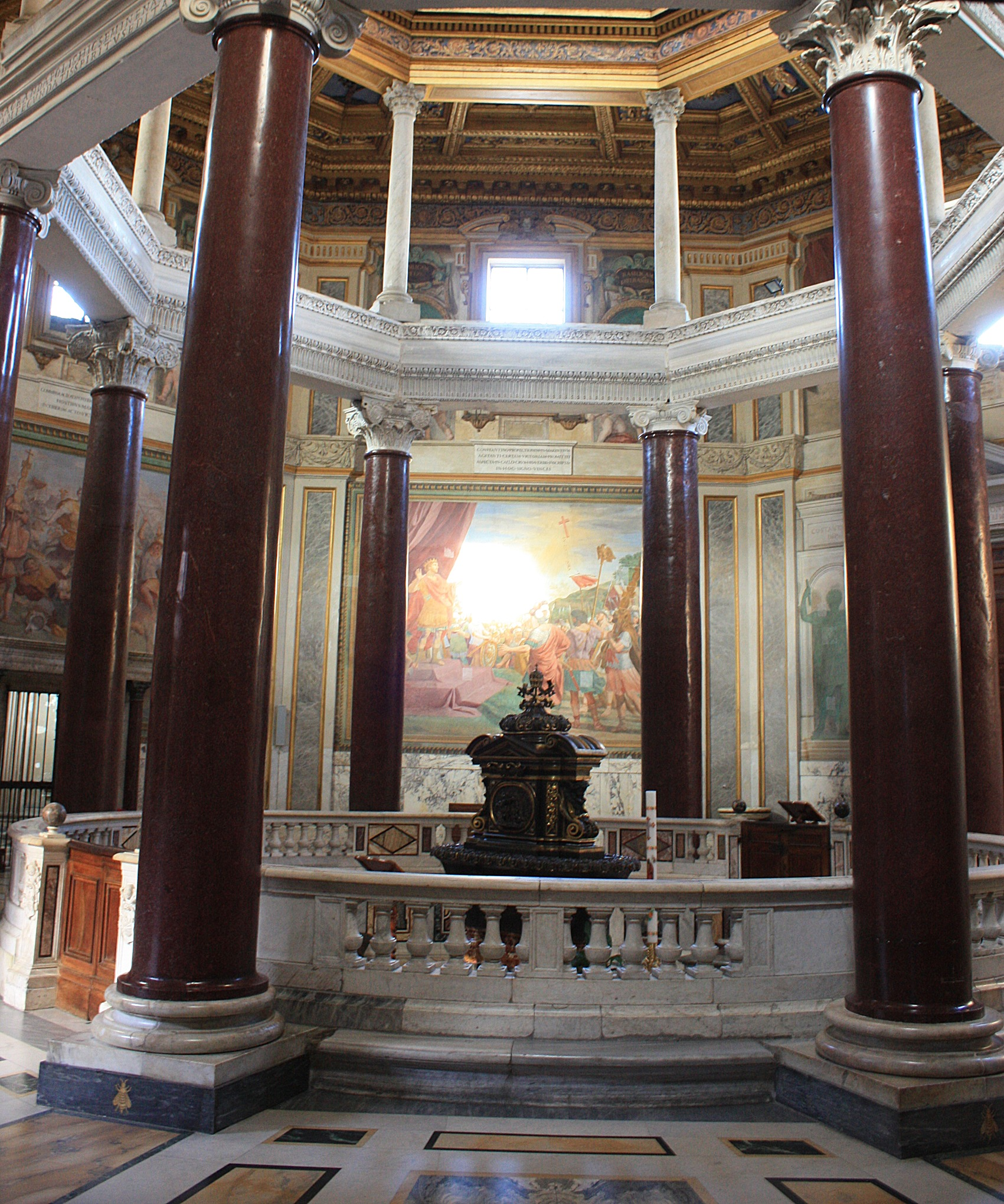 Rome, Lateran Baptistery, inner view